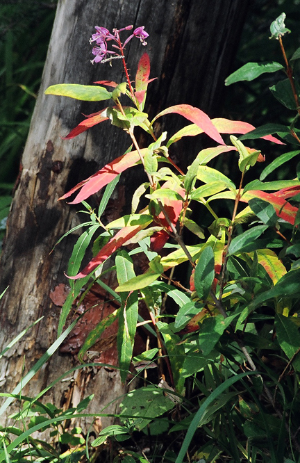 Fireweed (Chamerion augustifolium) is one of the first flowering species to appear in a distressed area. It takes its name from its proliferation in areas stricken by forest fires. Its bright magenta blossoms are visible from mid July through August, and its leaves add additional color as fall or drought turn them bright red and orange. Fireweed is an edible plant; likened to asparagus, it is eaten the same way, and both its flowers and leaves can be used as tea or potherbs. Ø2004 D. Windrim Captioned As { }